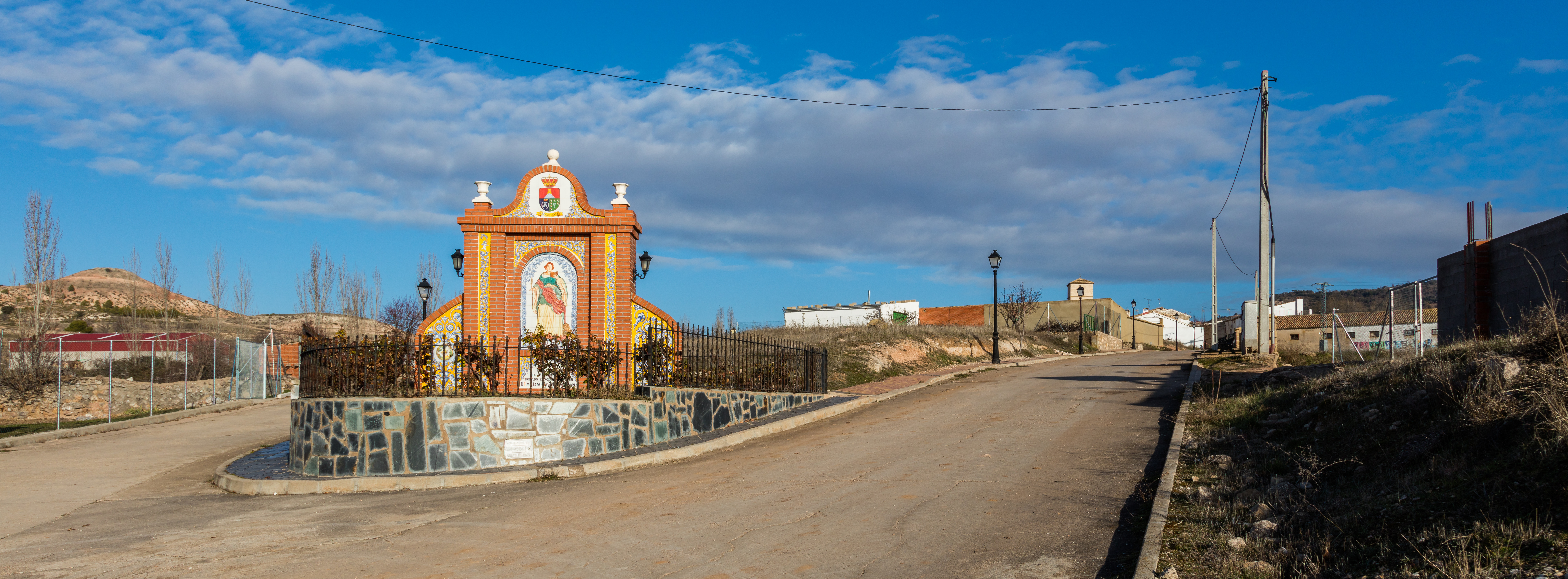 Alcohujate, Cuenca, Spain